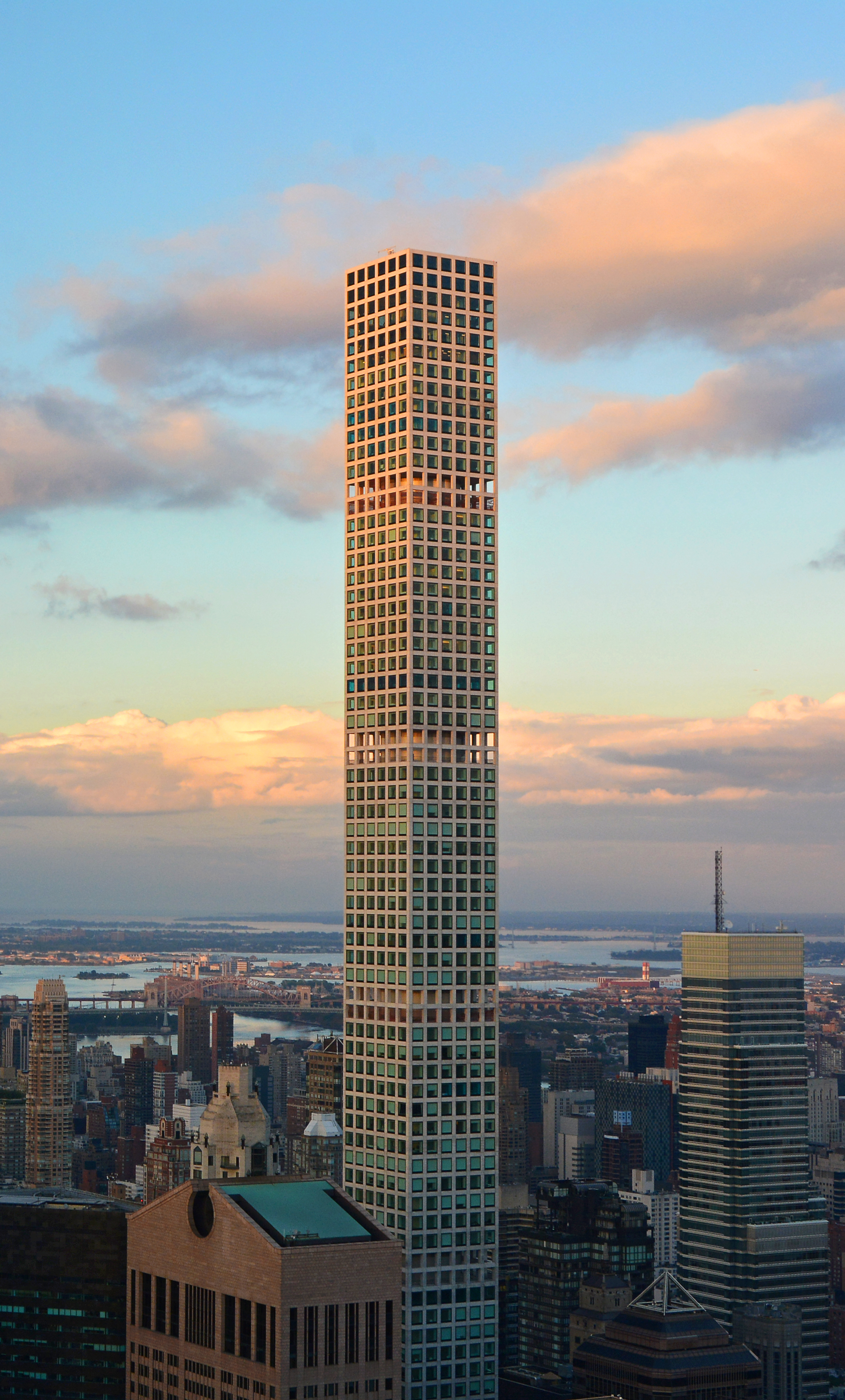 432 Park Avenue, "skinny tower" is one of the tallest residential towers in the world.